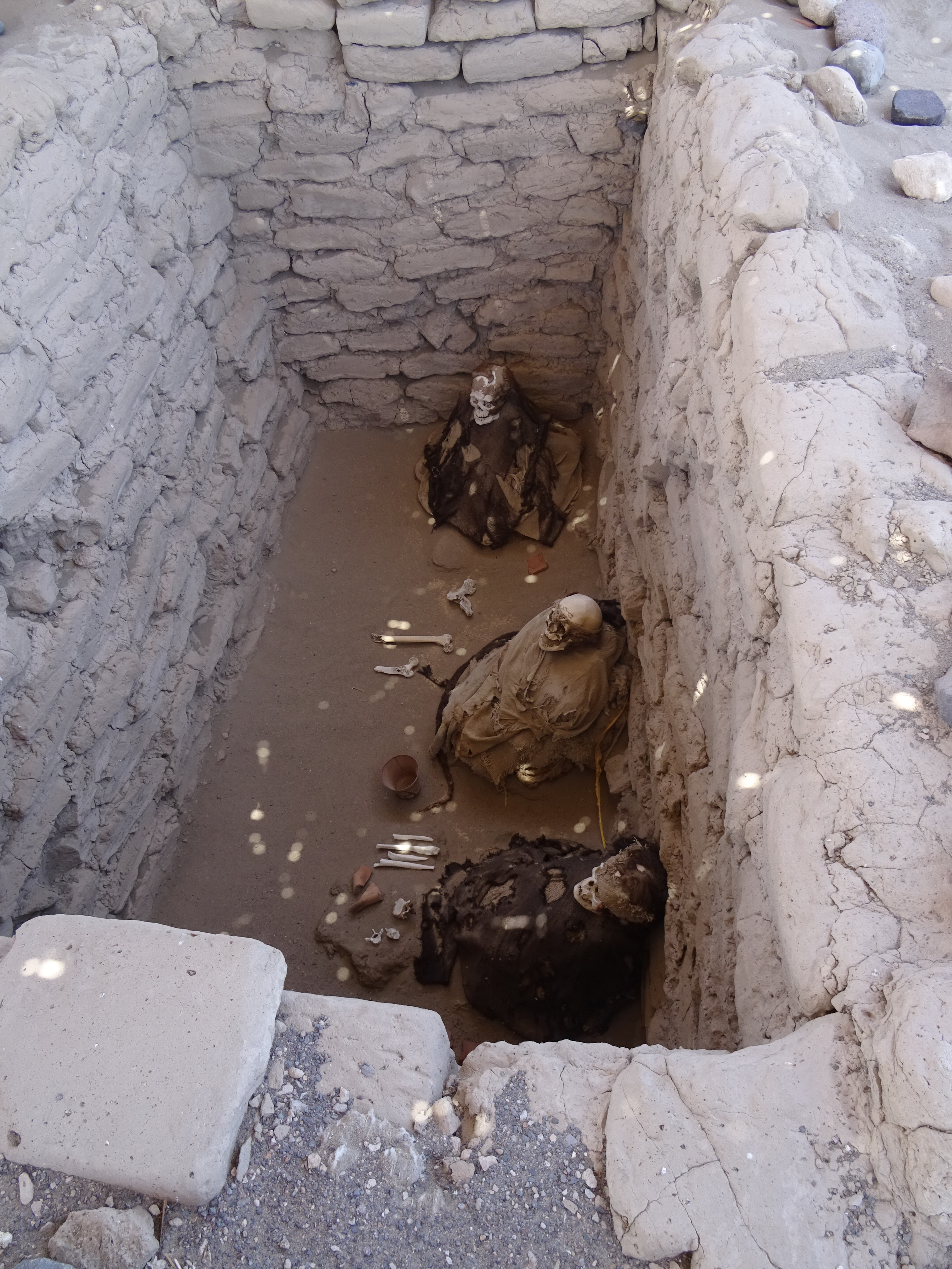 Chauchilla Cemetery near Nazca, Peru